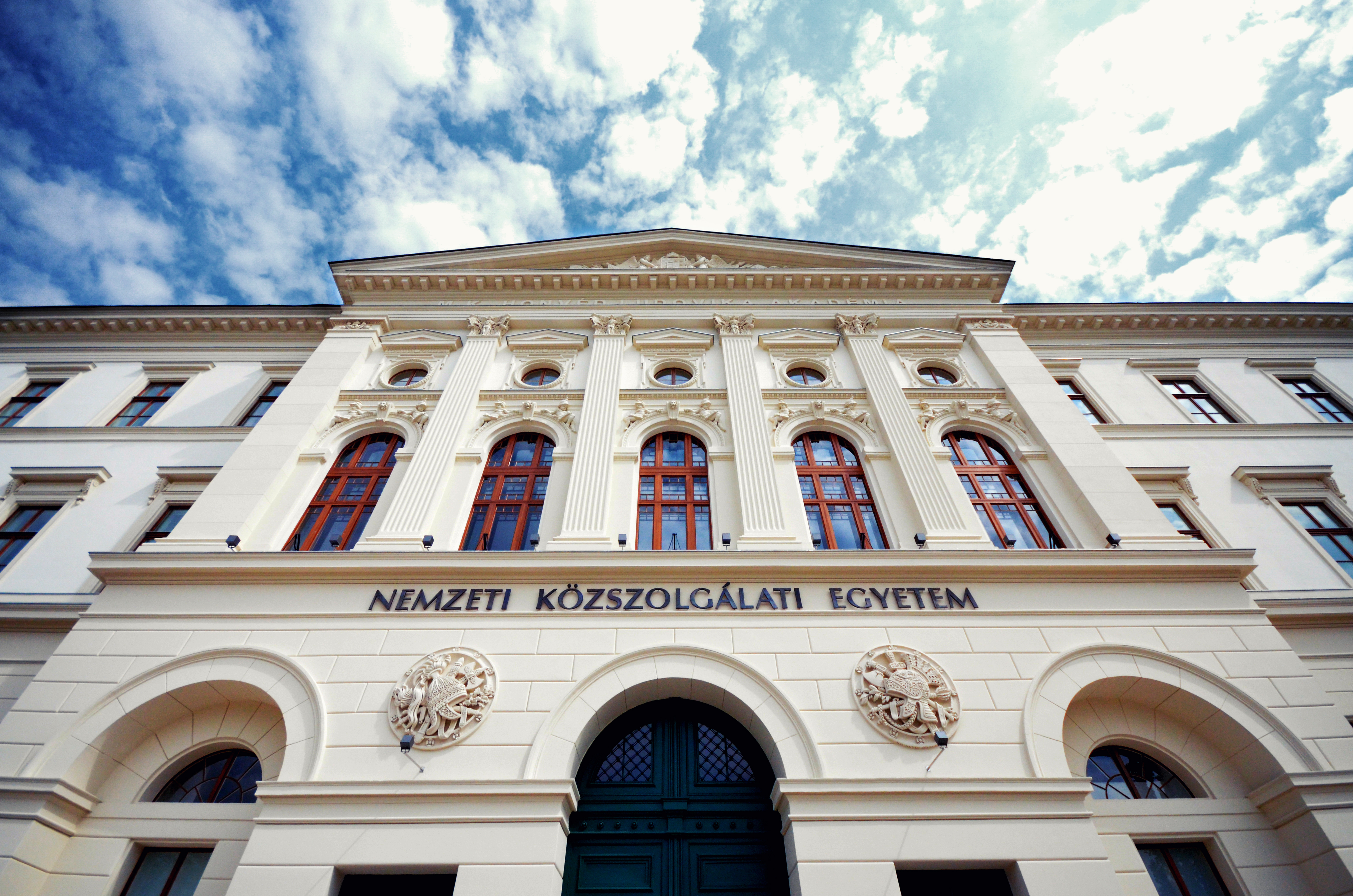 The frontispiece of the main building at the Ludovika Campus of NUPS